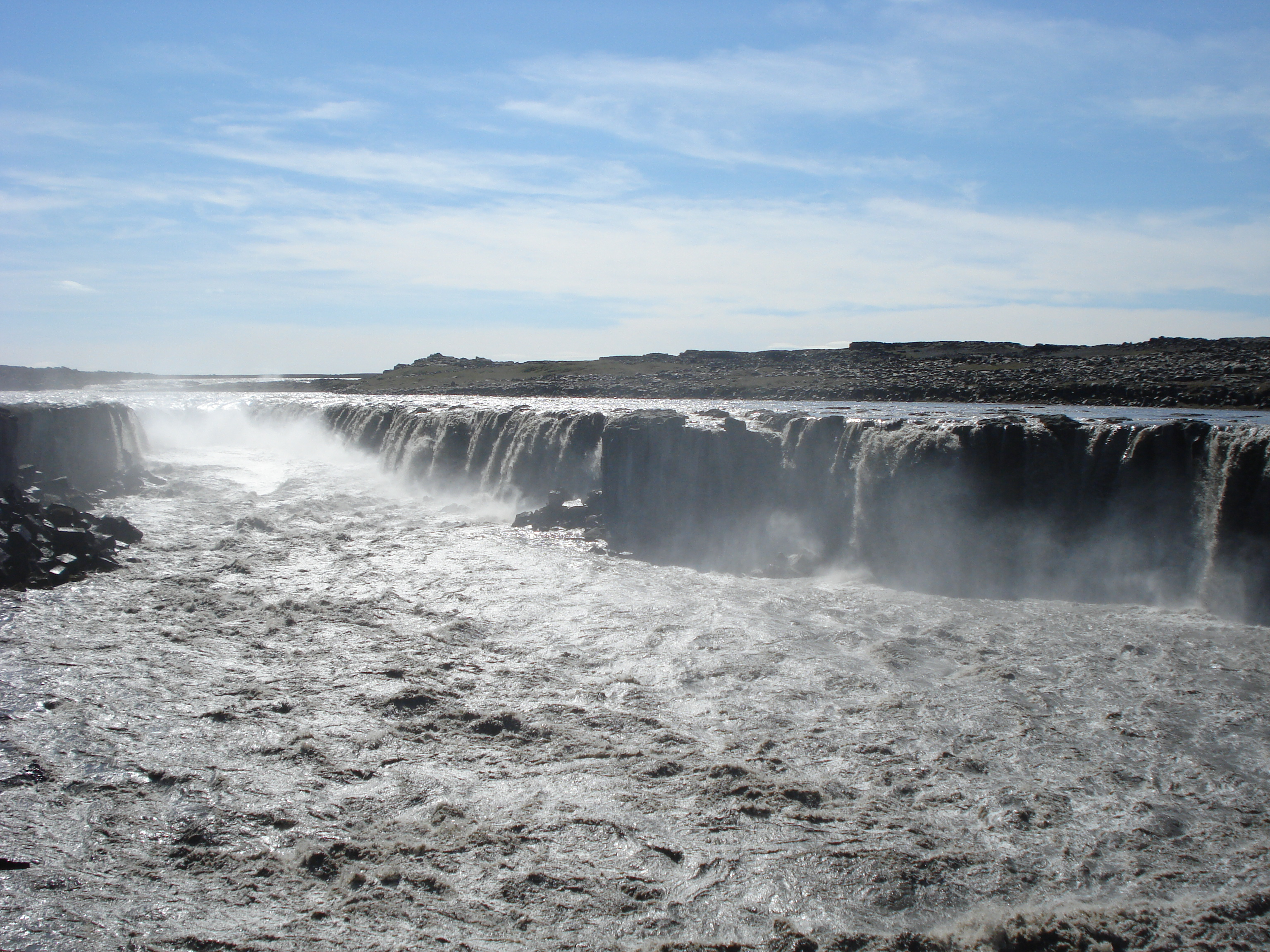 Selfoss above Dettifoss, Iceland.